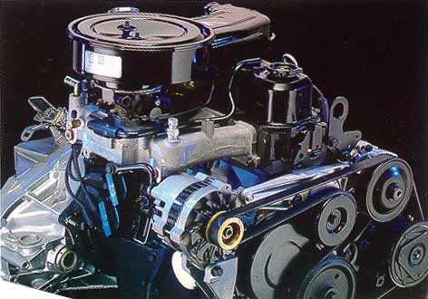 Picture of GM's 2.5L "Tech 4" engine